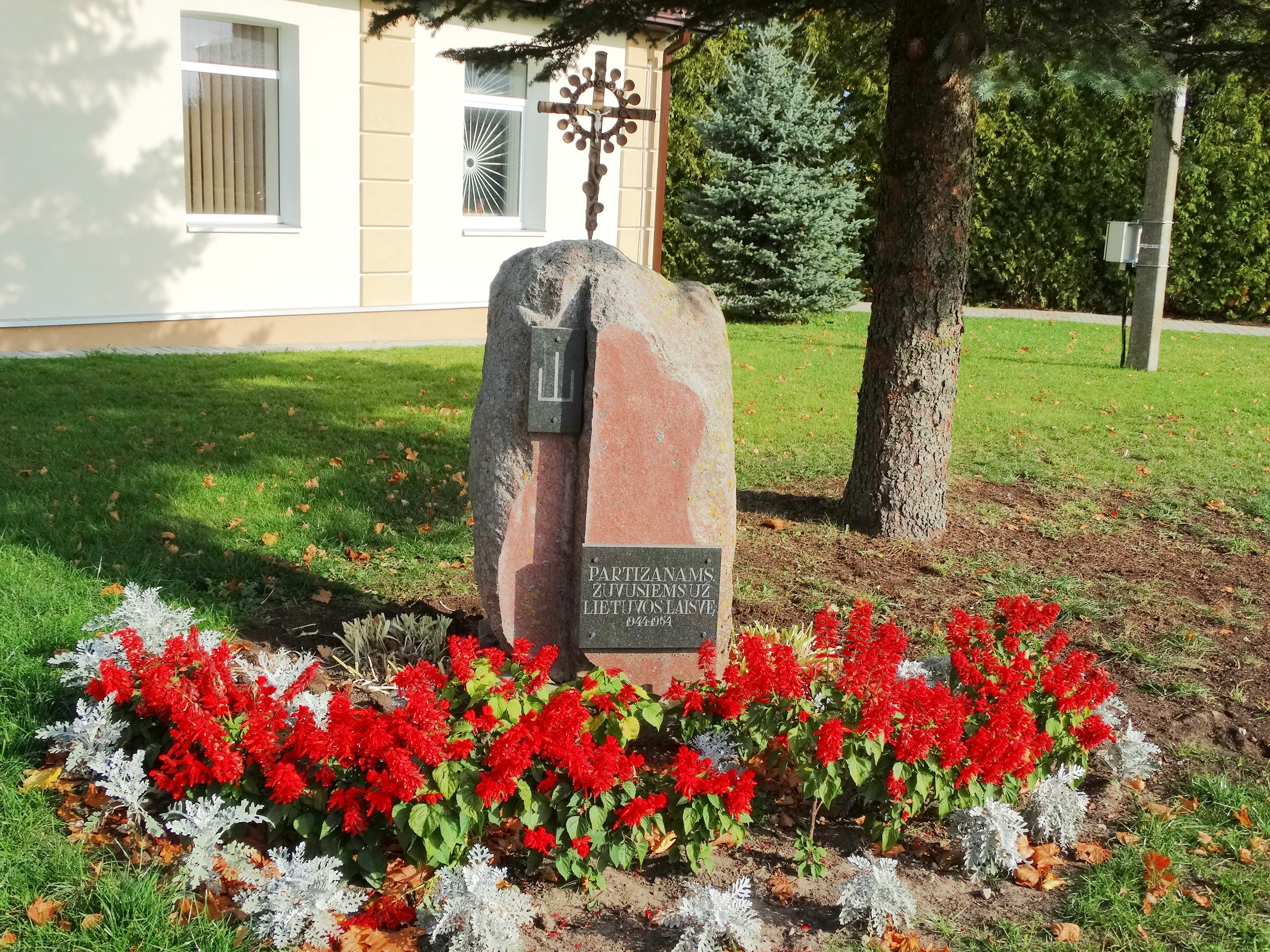 Monument to partisans, Šventežeris, Lazdijai district, Lithuania